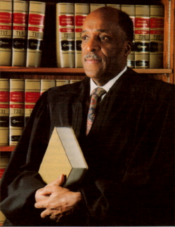 Description: Official portrait of Hon. Nathaniel R. Jones Author: Unknown Permission: Public domain